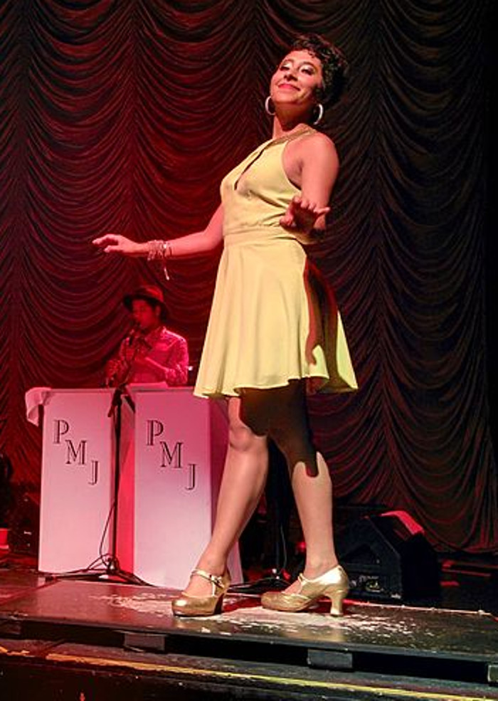 Sara Reich at The Regency Center with Postmodern Jukebox in 2015